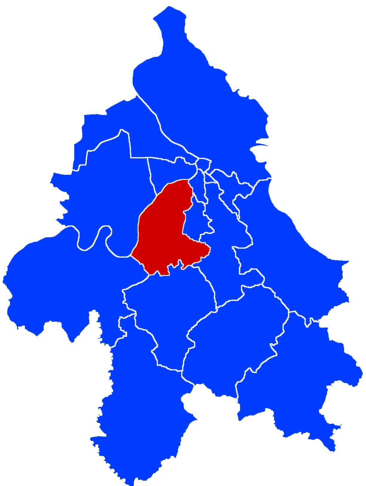 The graphical representation of the municipality of Čukarica within the city of Belgrade